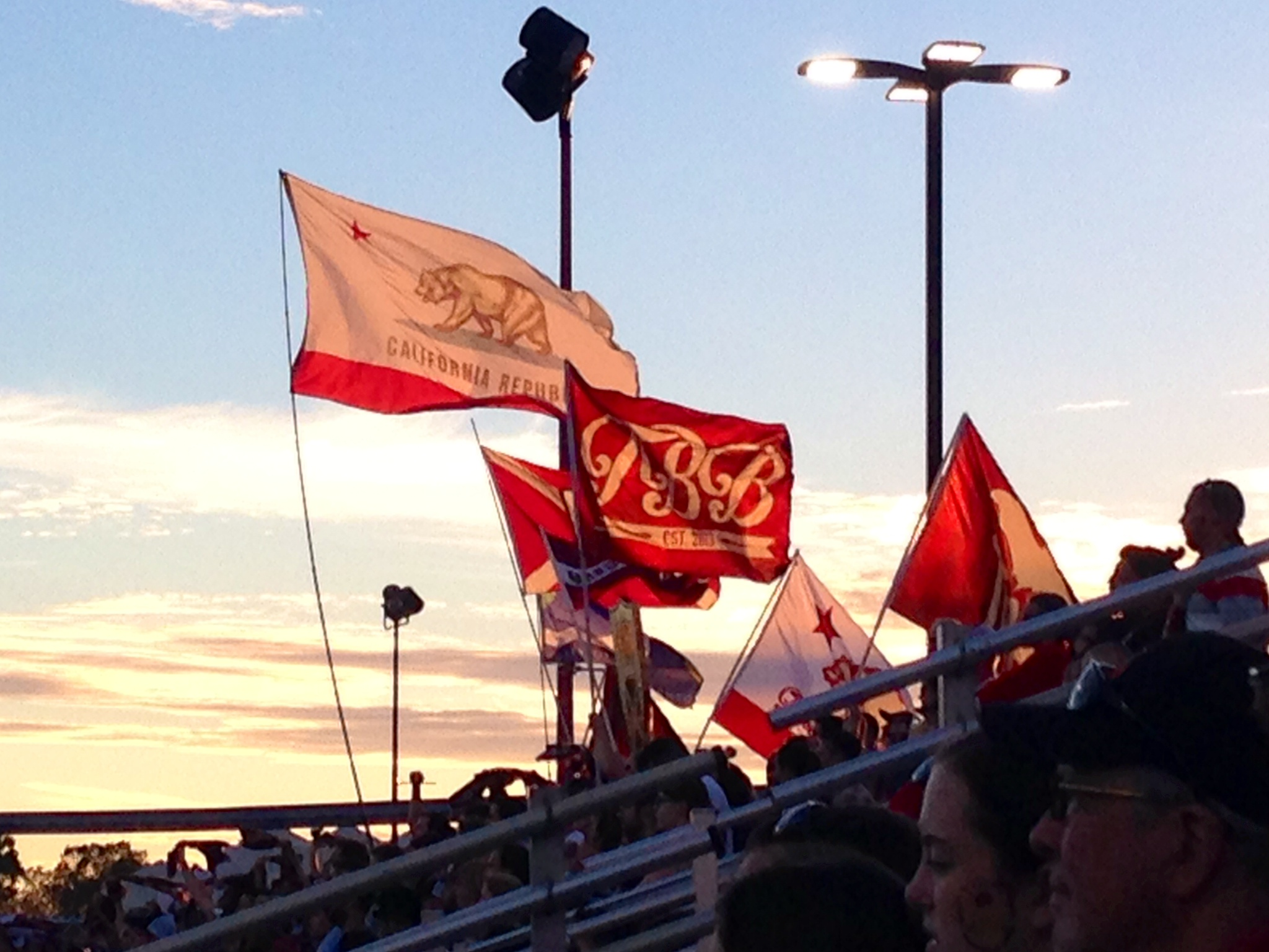 Tower Bridge Battalion members wave their customary flags and banners in the supporters section of the grand stands during a match between the Republic and Arizona United.